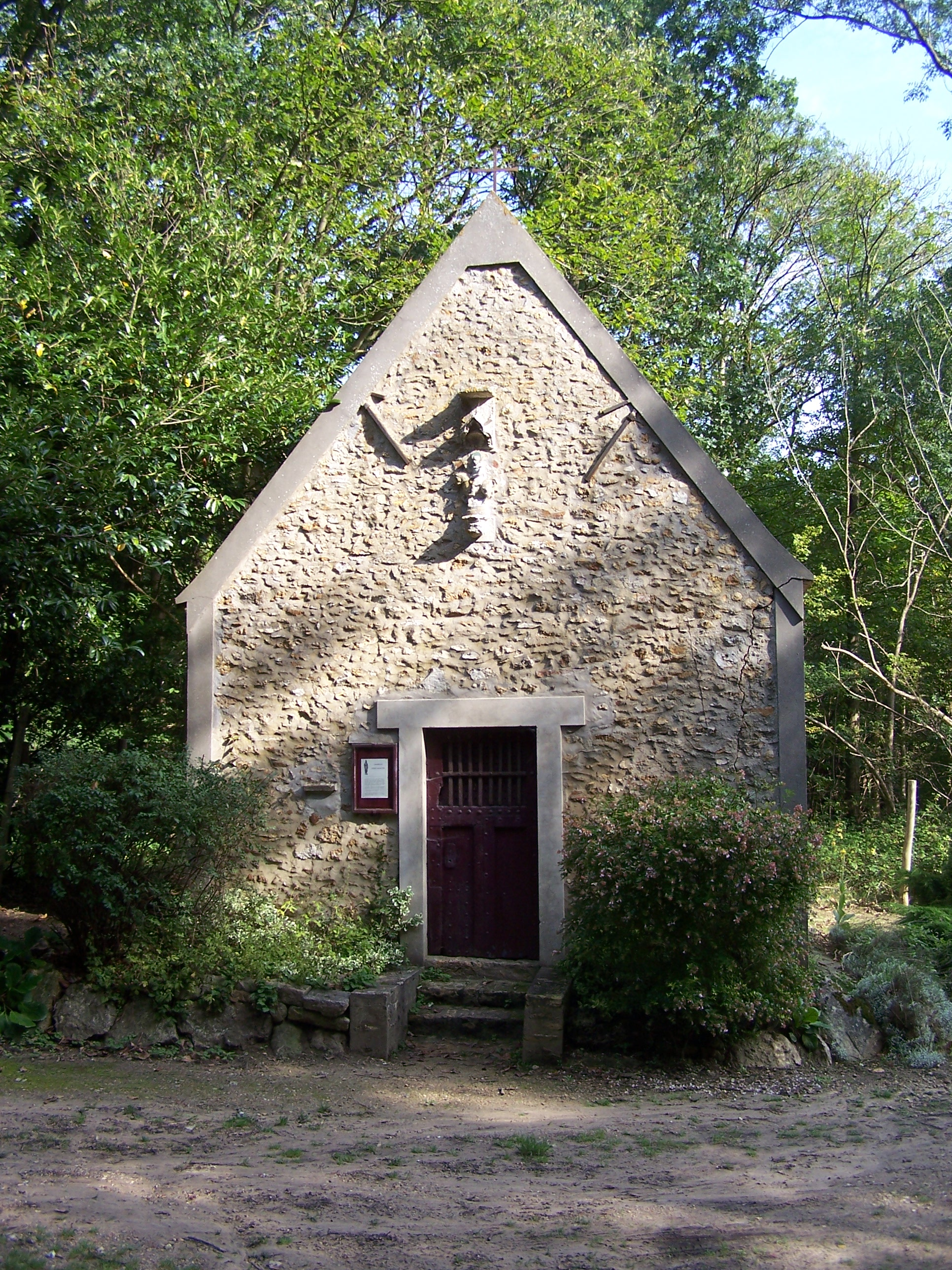 Chapel_Saint-Sanctin in Auteuil (Yvelines, France)